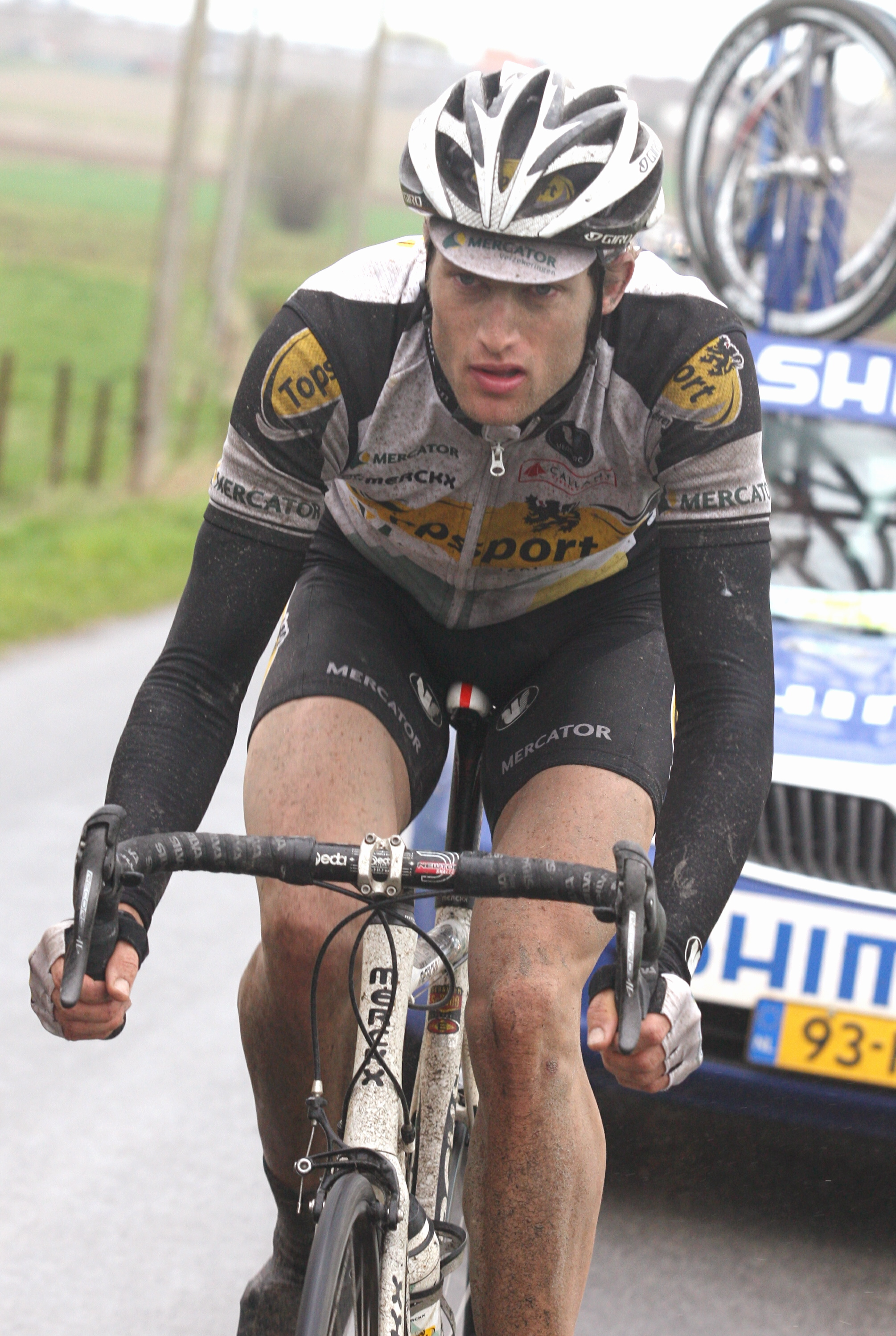 GENT - WEVELGEM / NIKOLAS MAES